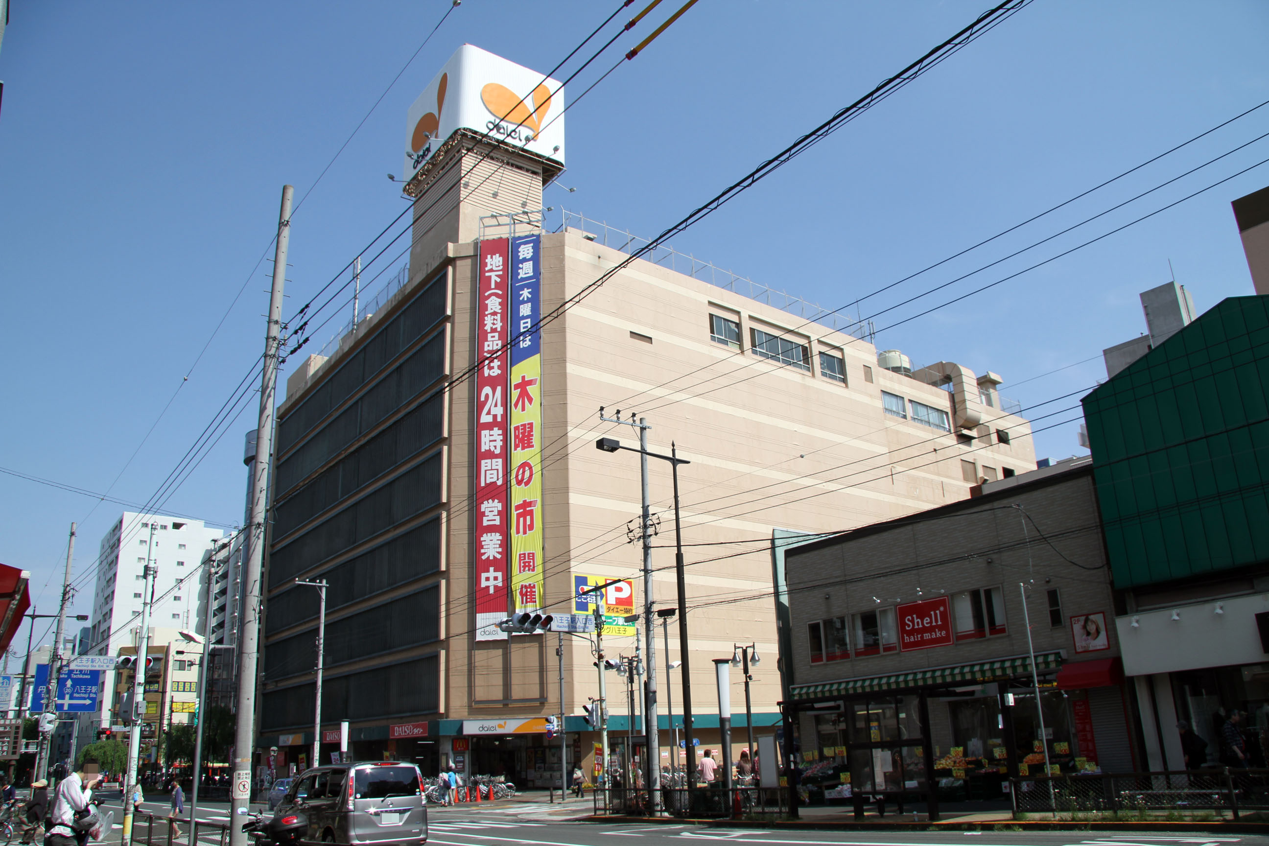 Daiei Hachioji store, Hachioji, Tokyo, Japan